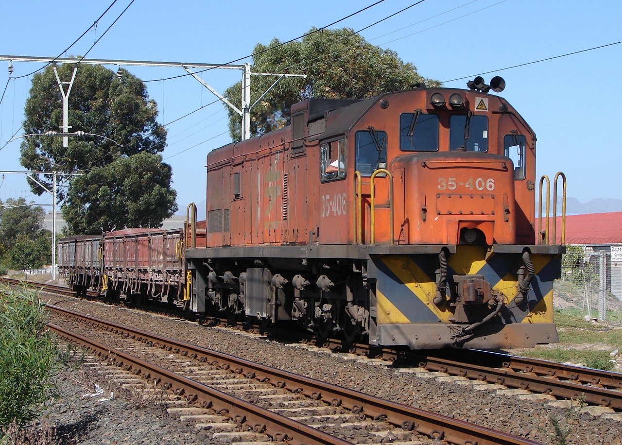 South African Class 35-400 35-406 Builder's Number: GE 40525 Type: GE U15C Location: Stikland, Cape Town, Western Cape